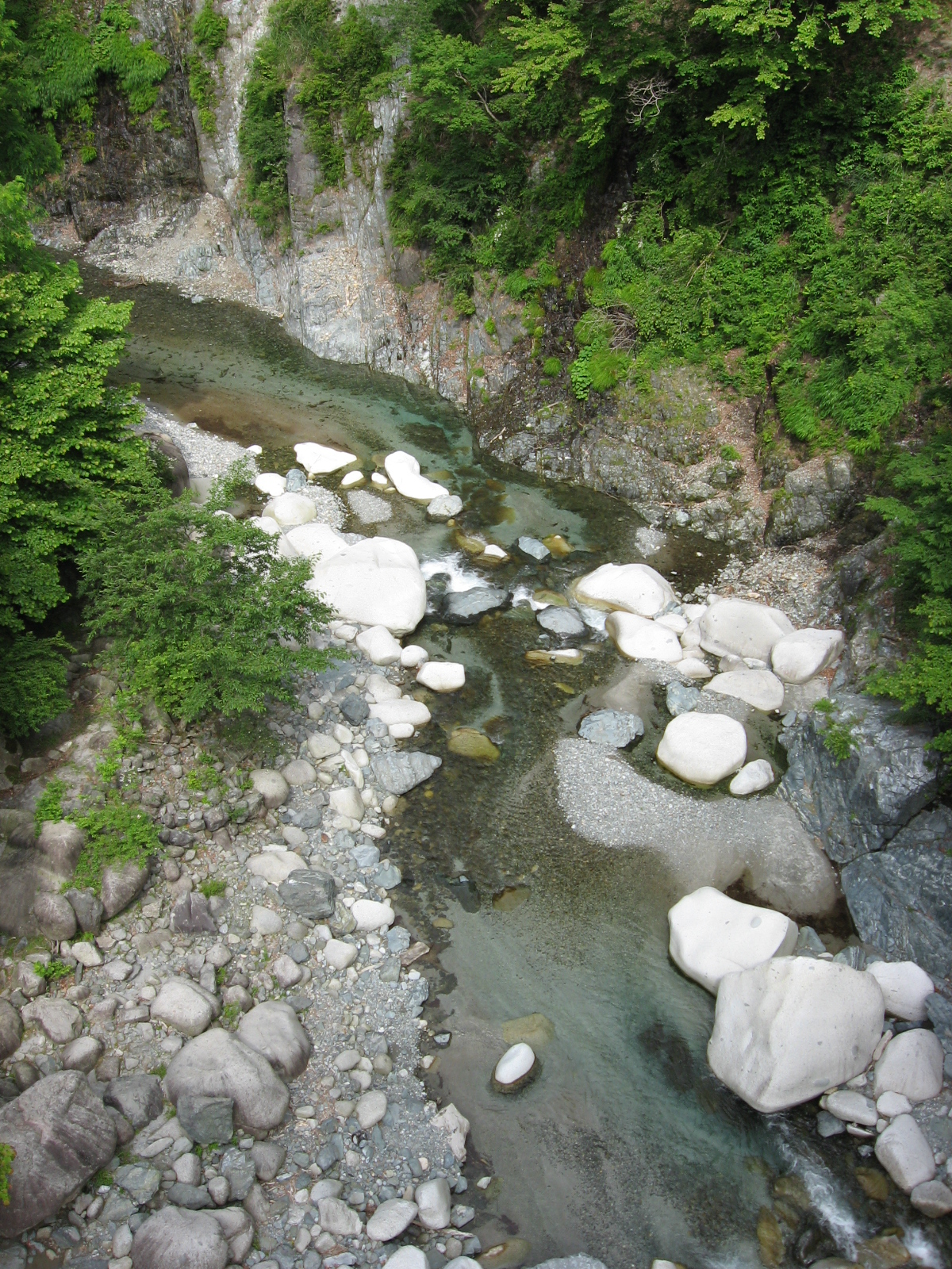 The Kurokura river in Yamakita town, Kanagawa Pref., Japan.